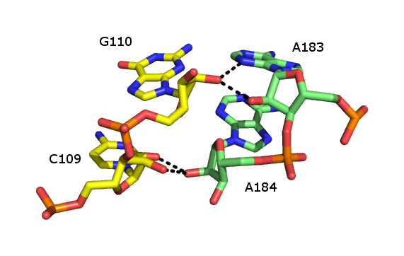 Simple view of a section of ribose zipper. Created using PyMol, from PDB file 1GID.